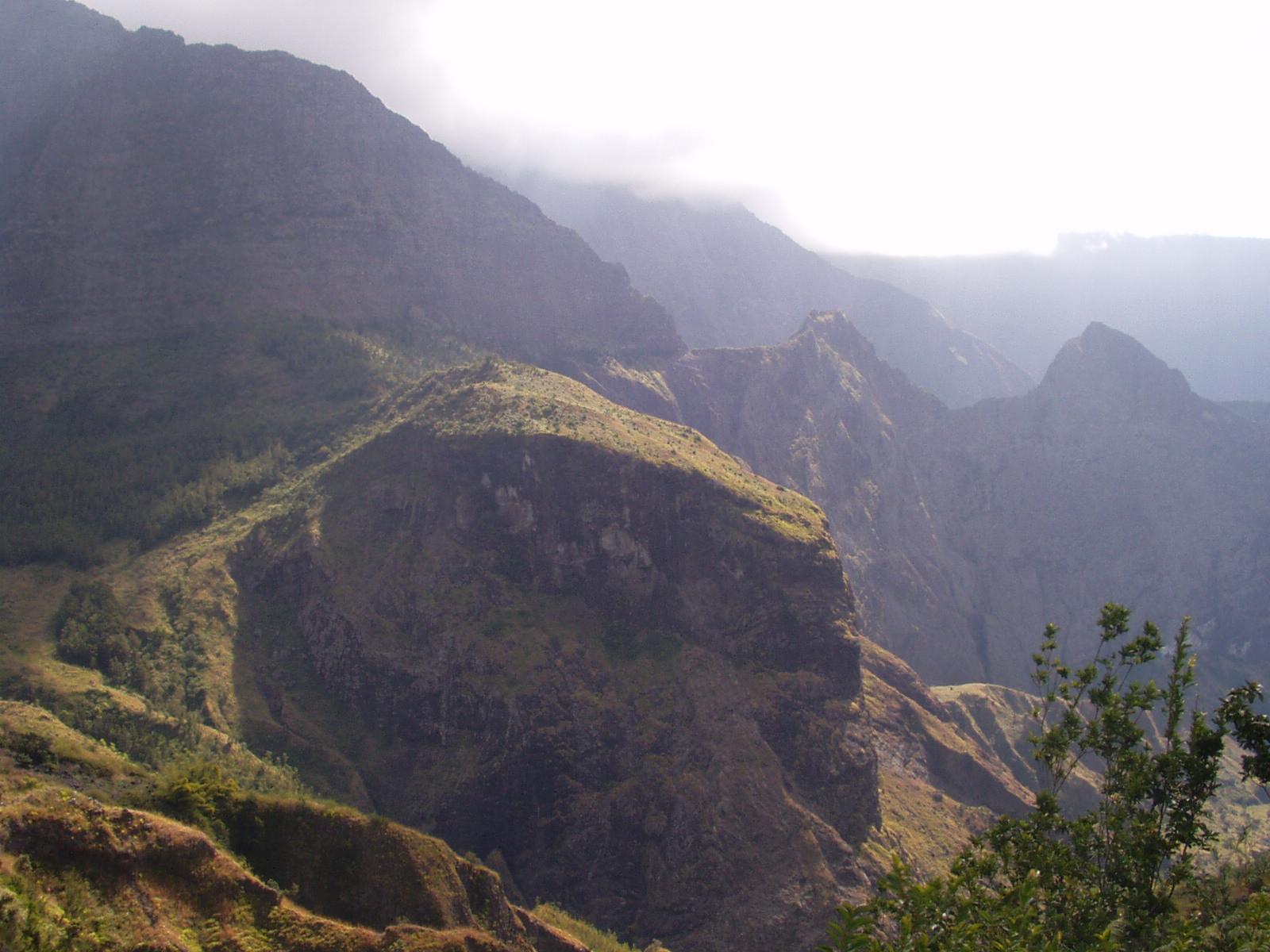 Mafate is a big valley without any road nor cars. But there are some villages called "ilets".